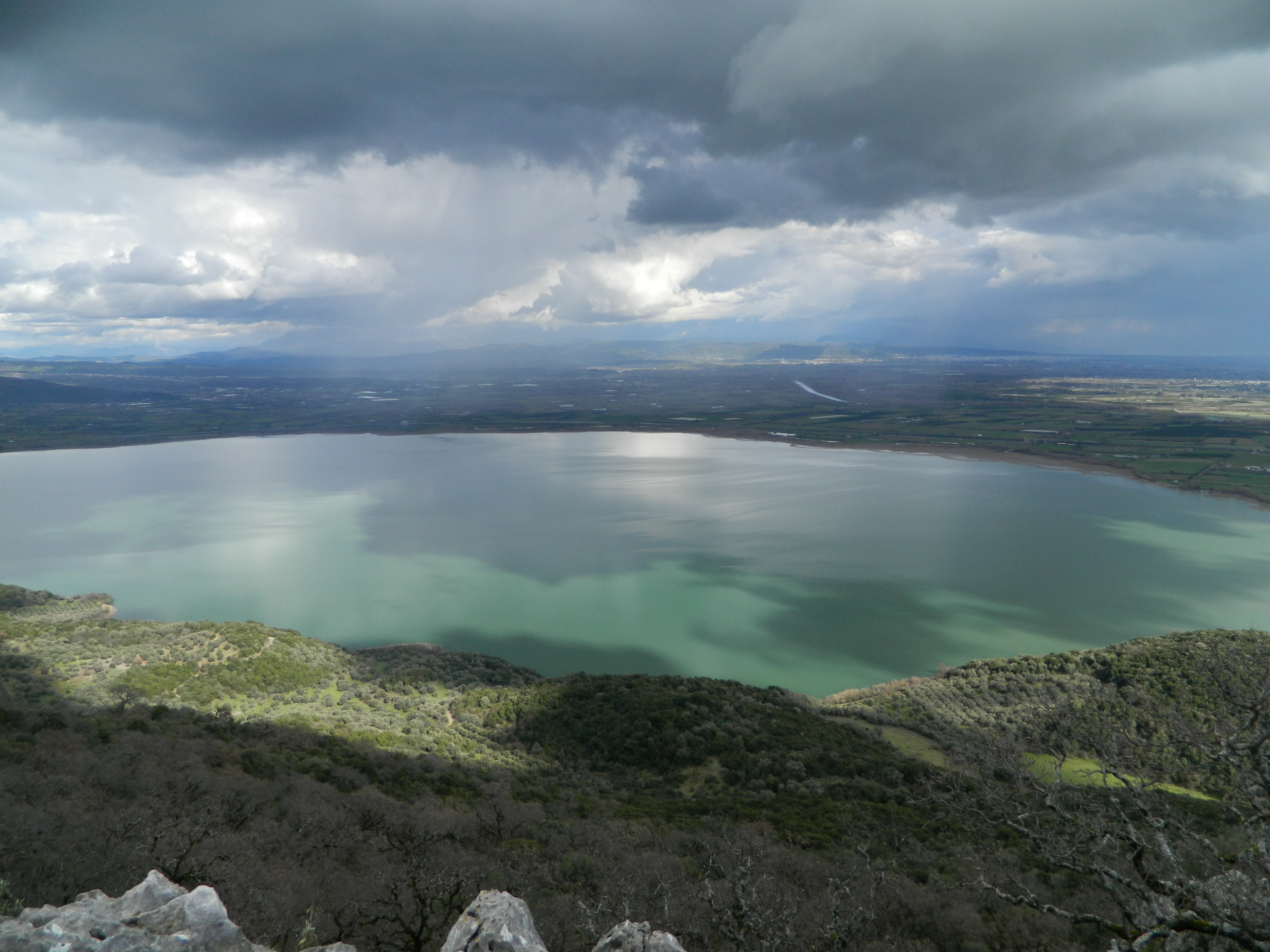 This is a photography of Natura 2000 protected area with ID GR2310008